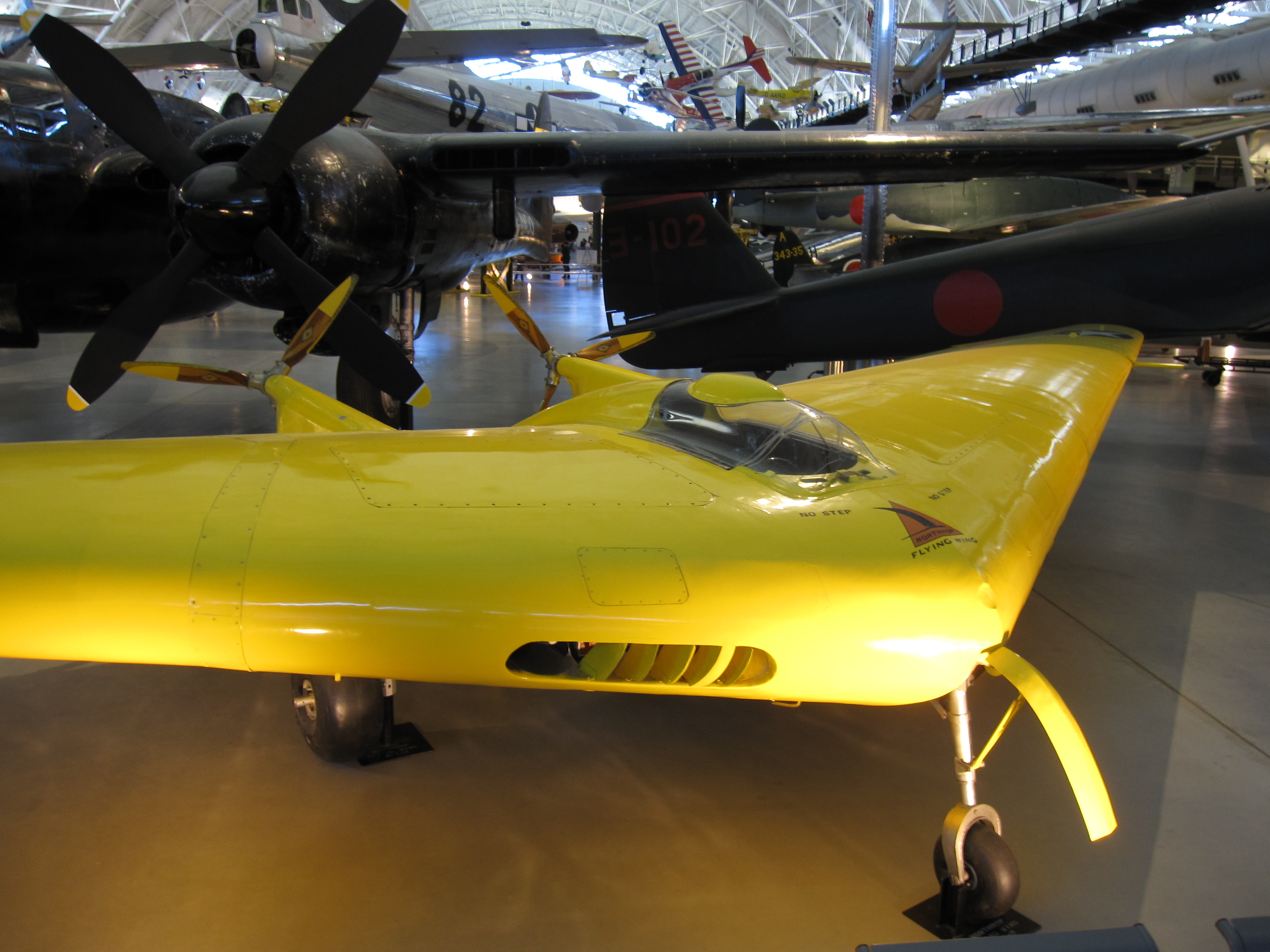 Northrop N-1M was the first real, "flying wing" designed by John K Northrop and first flown on July 3 1941. It was built in plywood and was powered by two 65 horsepower engines.